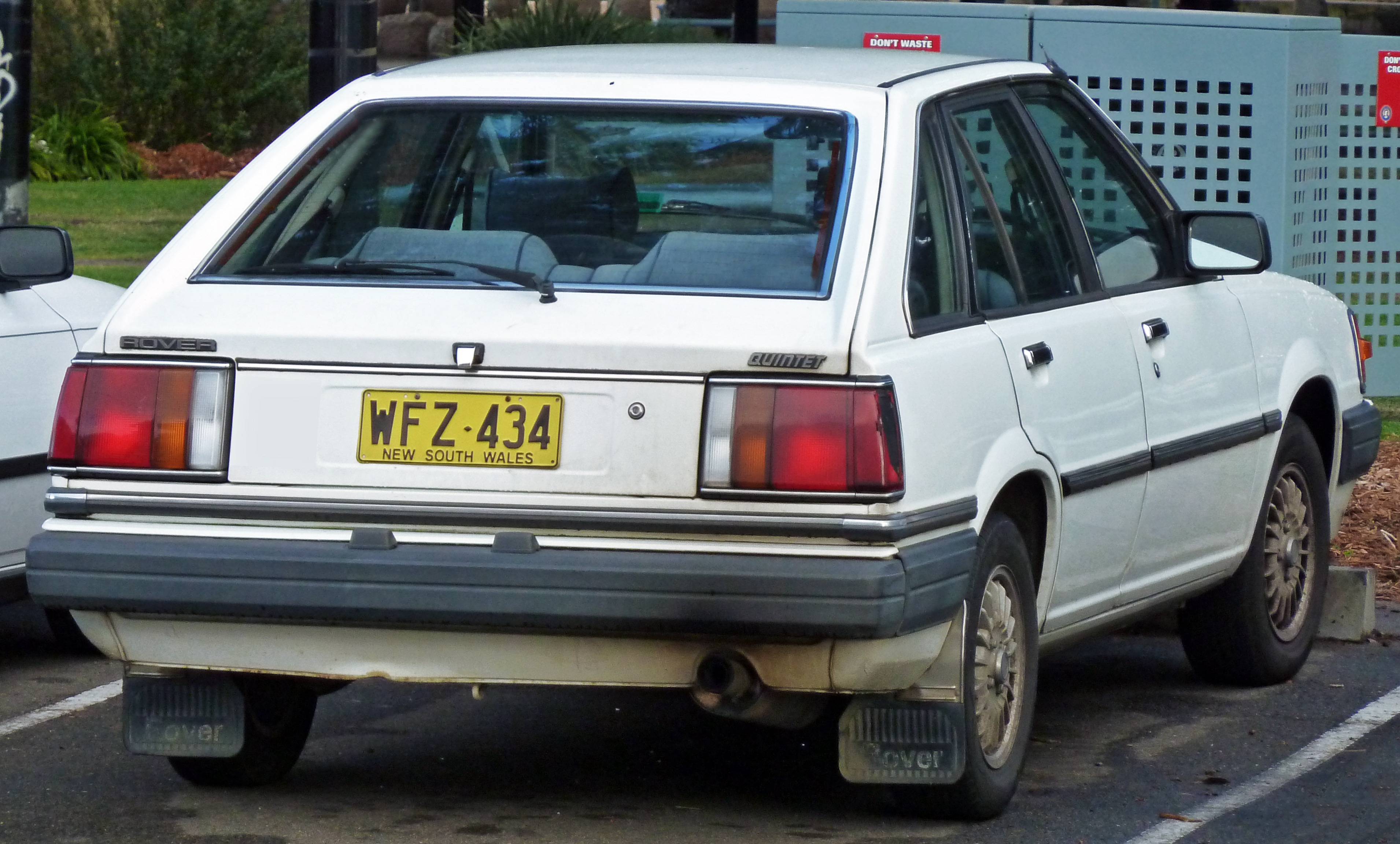 1984 Rover Quintet hatchback. Photographed in Cronulla, New South Wales, Australia.